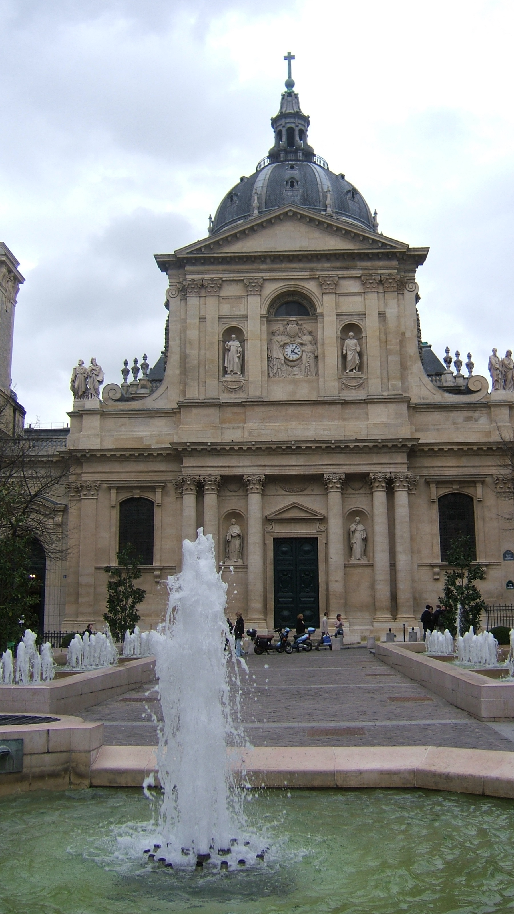 Description= La Sorbonne, France, Paris, March 2007 Source= own work Date= march 2007 Author= Vincent Gollain